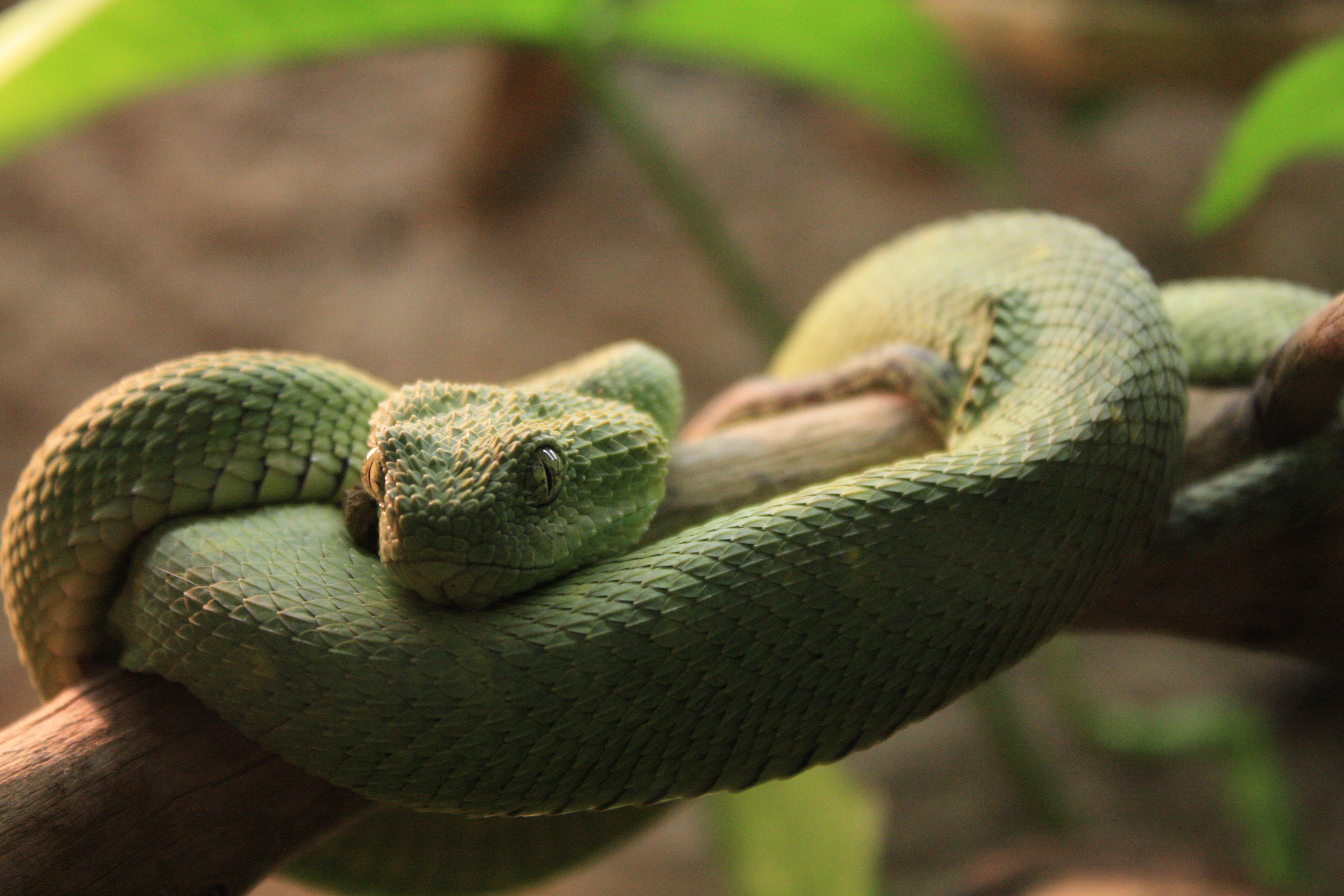 Picture of Snake at Vivarium, Lausanne, Switzerland. Probably a green bush viper (Atheris squamigera).